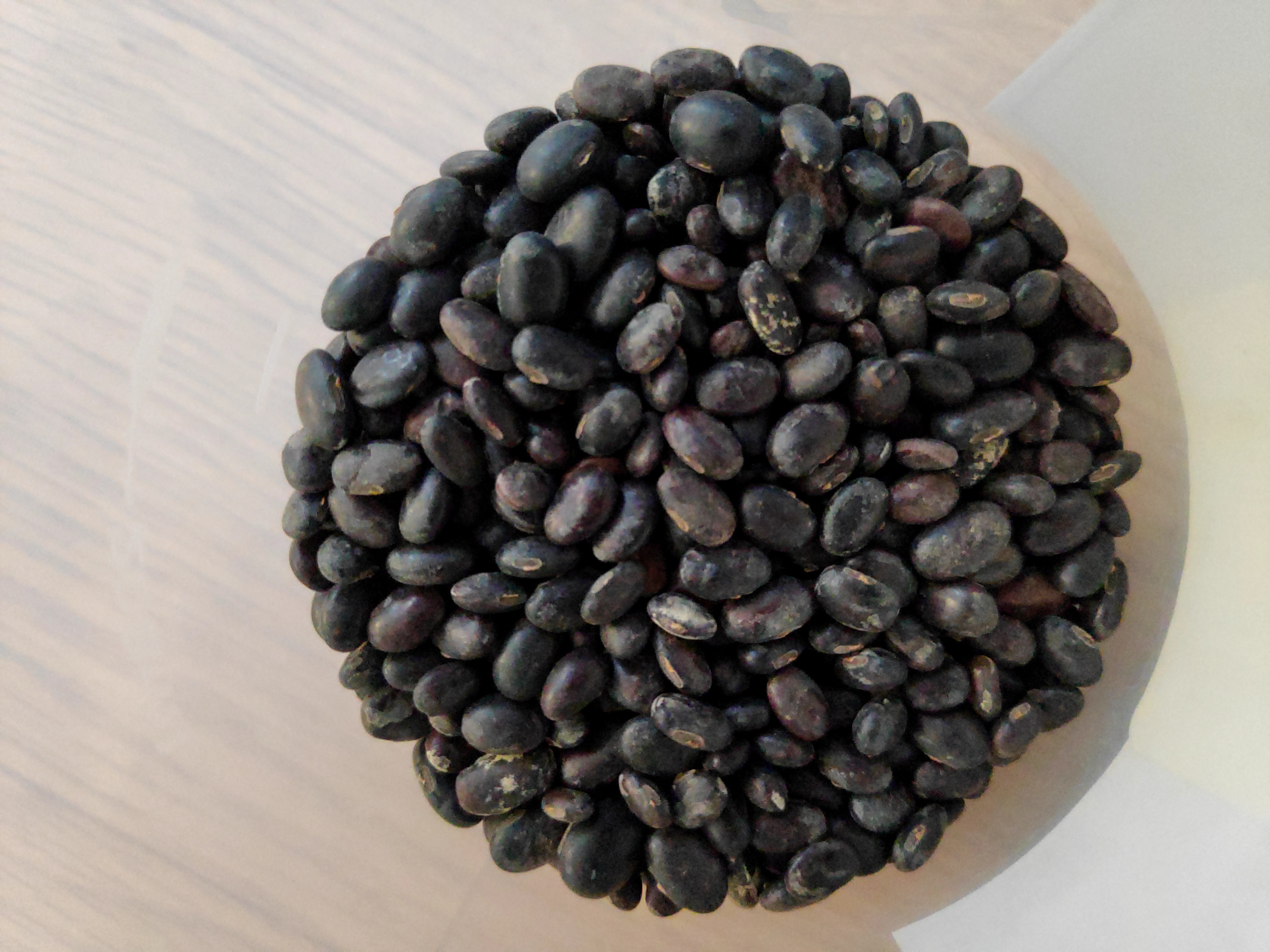 Soya Bean from high altitude area of Jumla, Nepal.